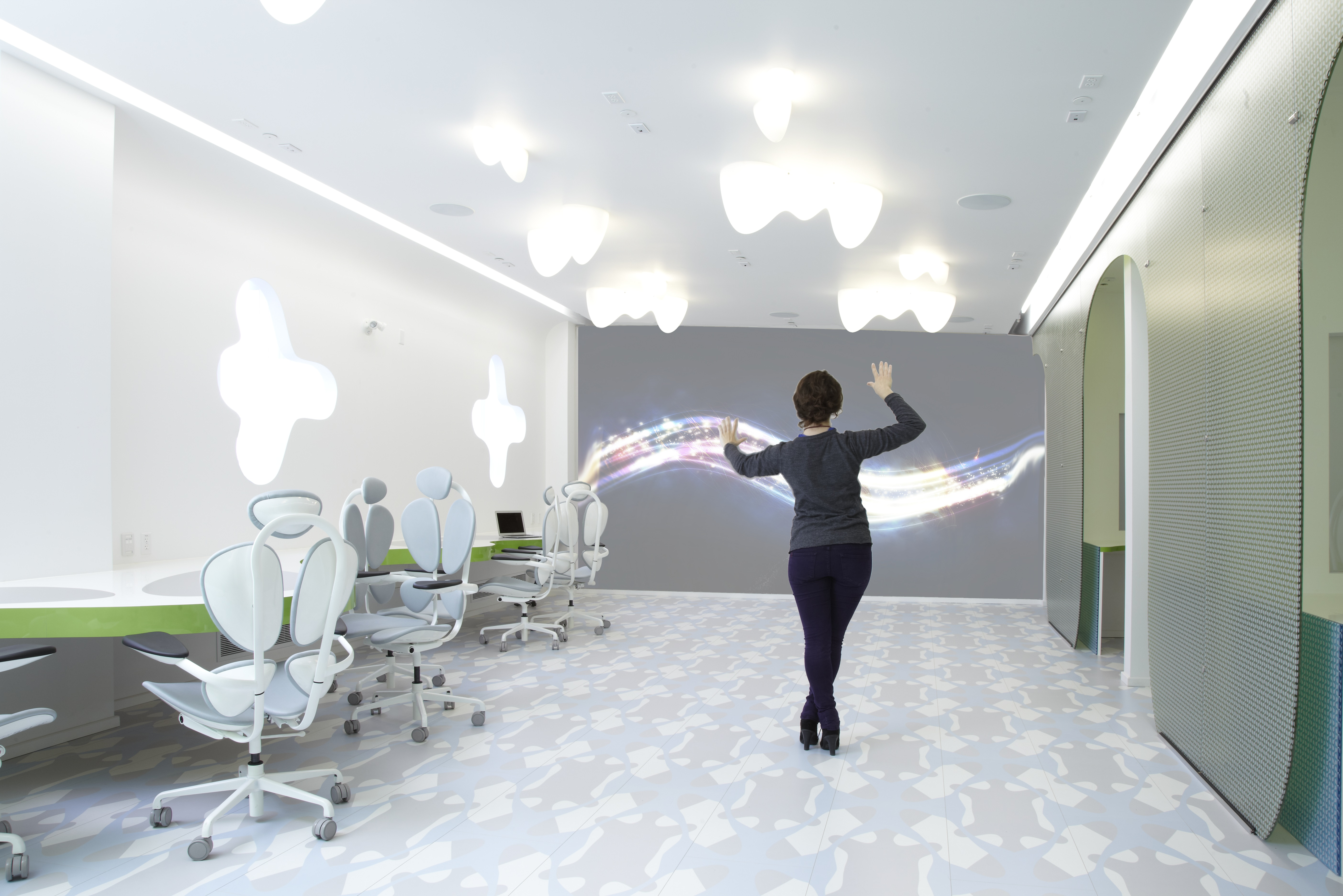 Main laboratory space featuring a large wall-sized display, ceiling-based motion-capture system, a group work table and student cubicles with privacy glass windows.